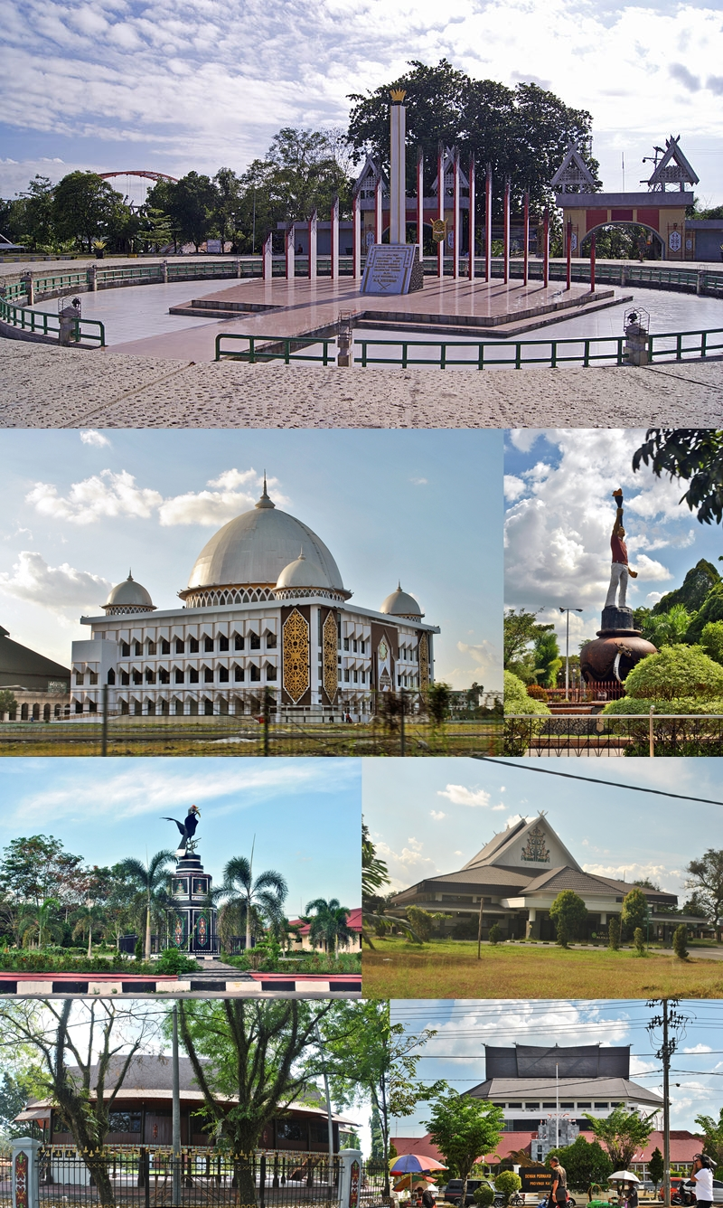 From top, right to left: Sukarno Monument, Islamic Center of Palangka Raya, Youth Statue, Bird Round of central park, University of Palangka Raya, and The gigantic local parliament office.